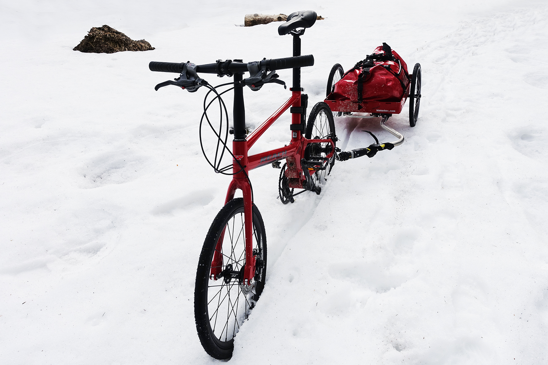 Foldable bicycle model: REACH